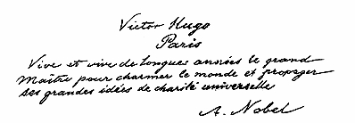 Telegram from Alfred Nobel to Victor Hugo